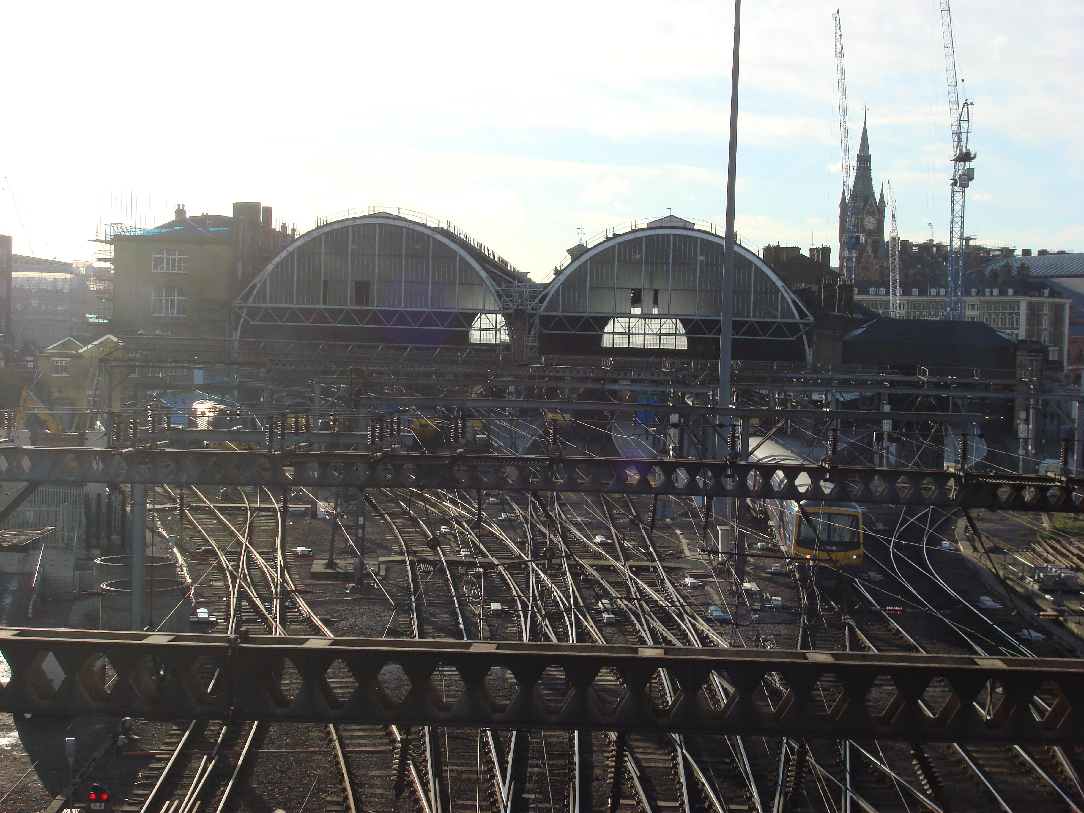 King's Cross railway station, London, UK